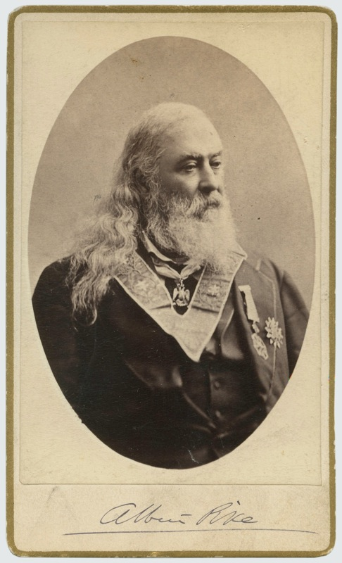 Signed CDV of Albert Pike